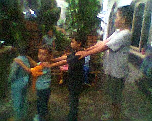 Ayang ayang gung